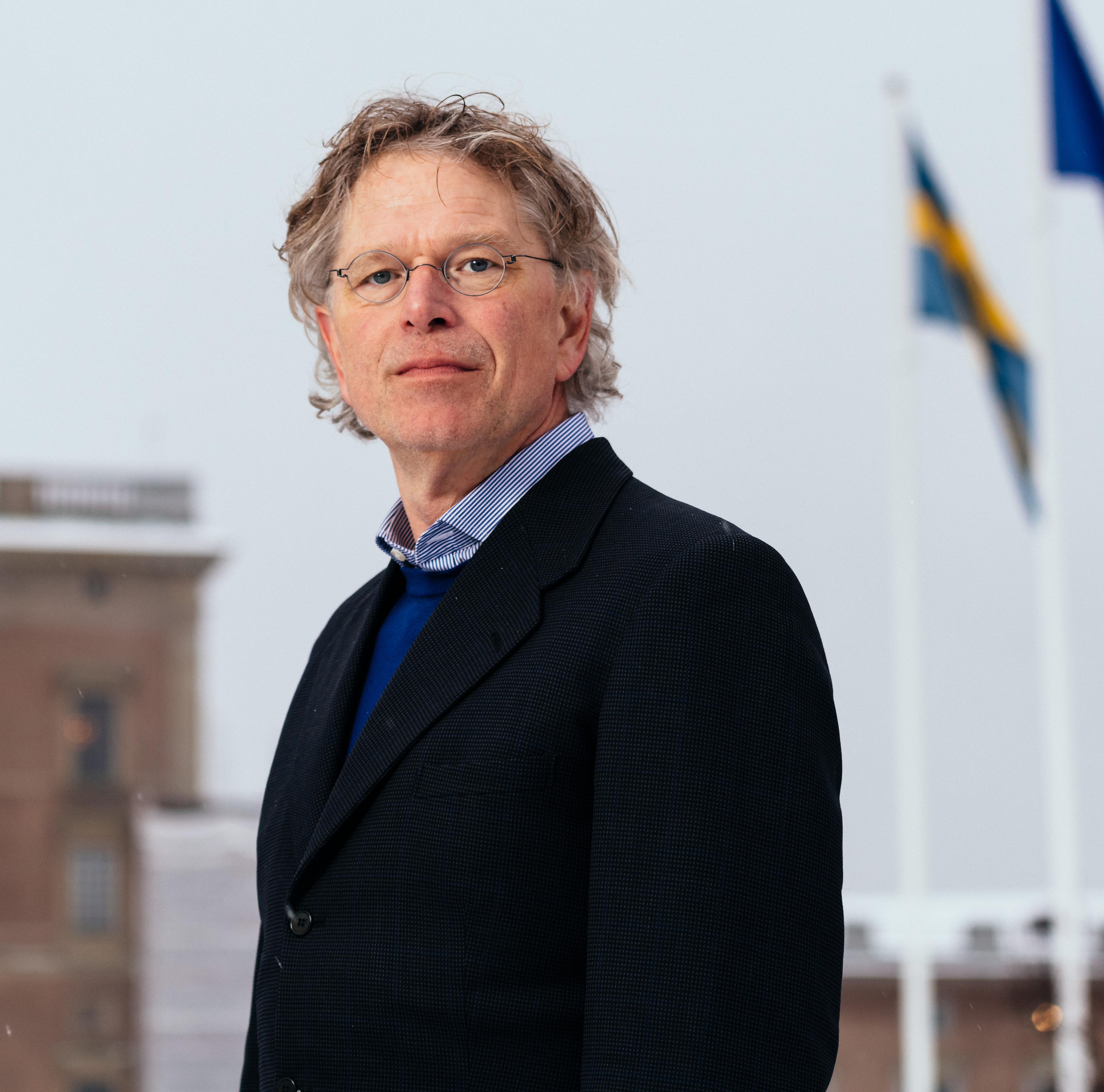 Björn-Ola Linnér photographed outside the Swedish Parliament in 2018.